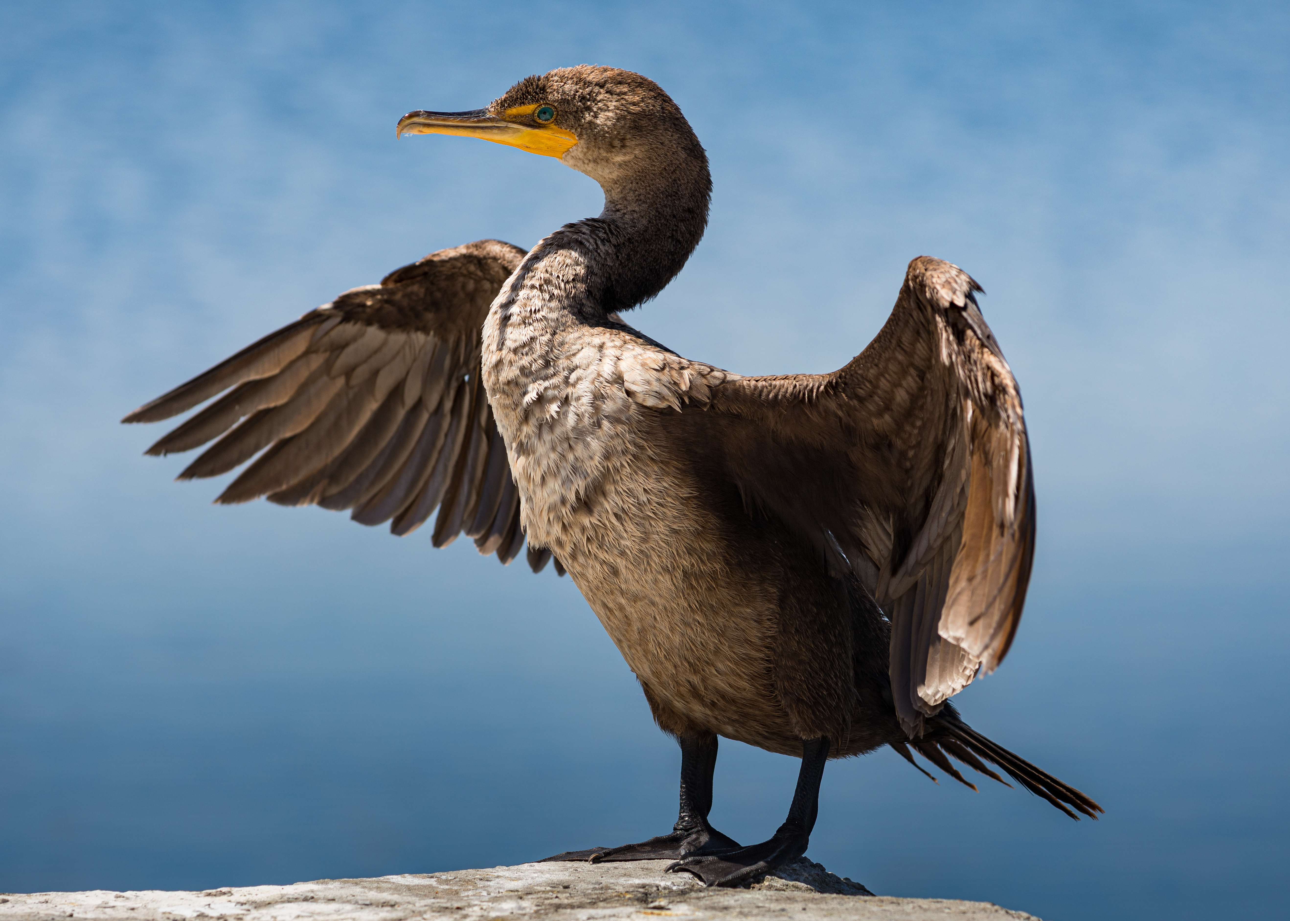 Juvenile double-crested cormorant (Phalacrocorax auritus albociliatus) at Sutro Baths, San Francisco, California, spreading its wings to dry its feathers